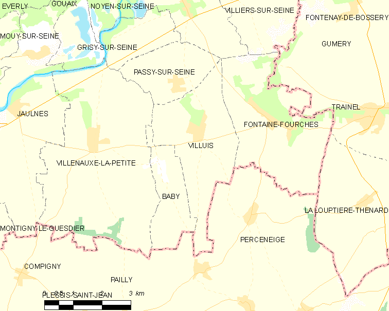 Map of French municipality Villuis